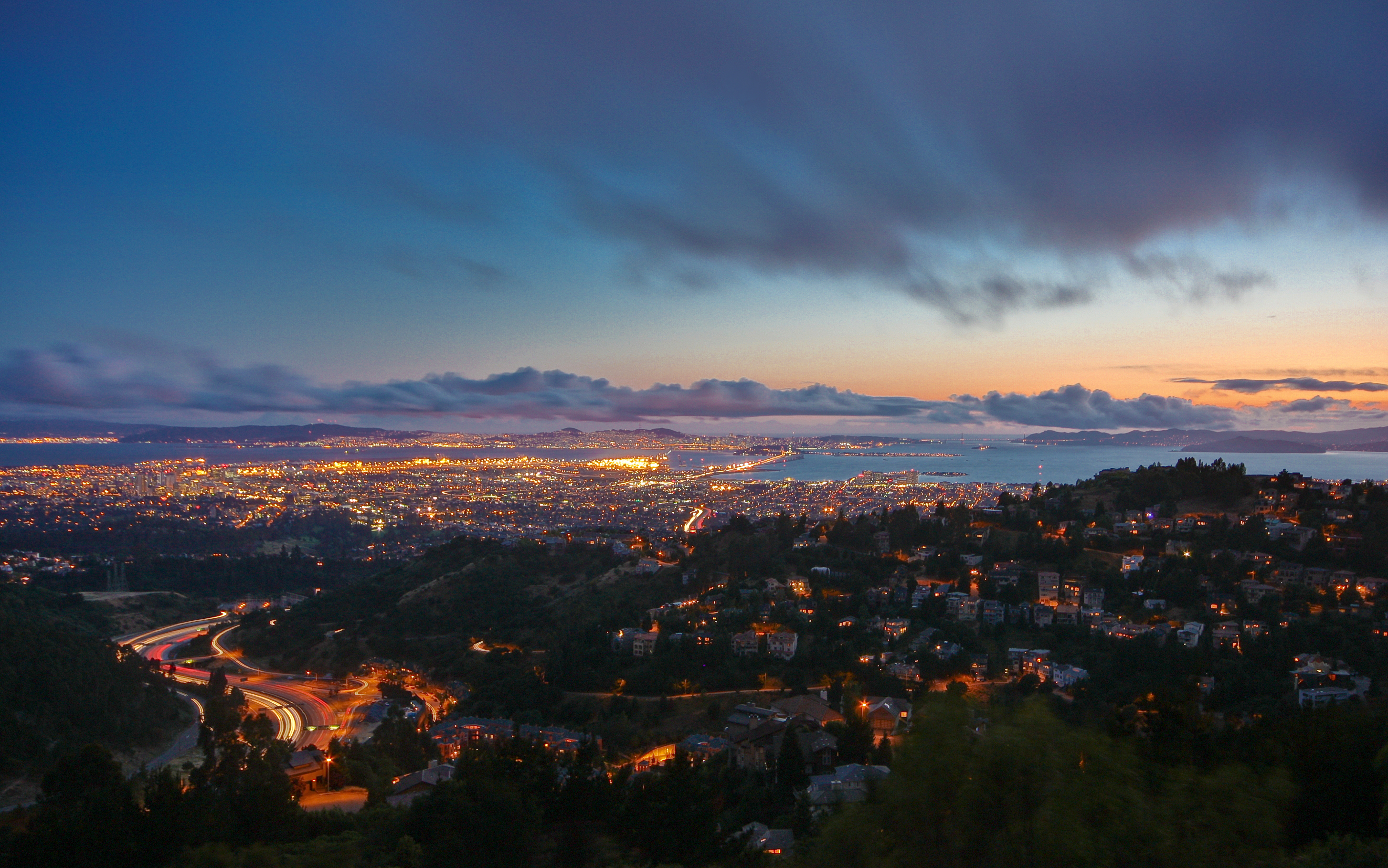 Oakland, California from Grizzly Peak Blvd. and Grizzly Terrace Drive.